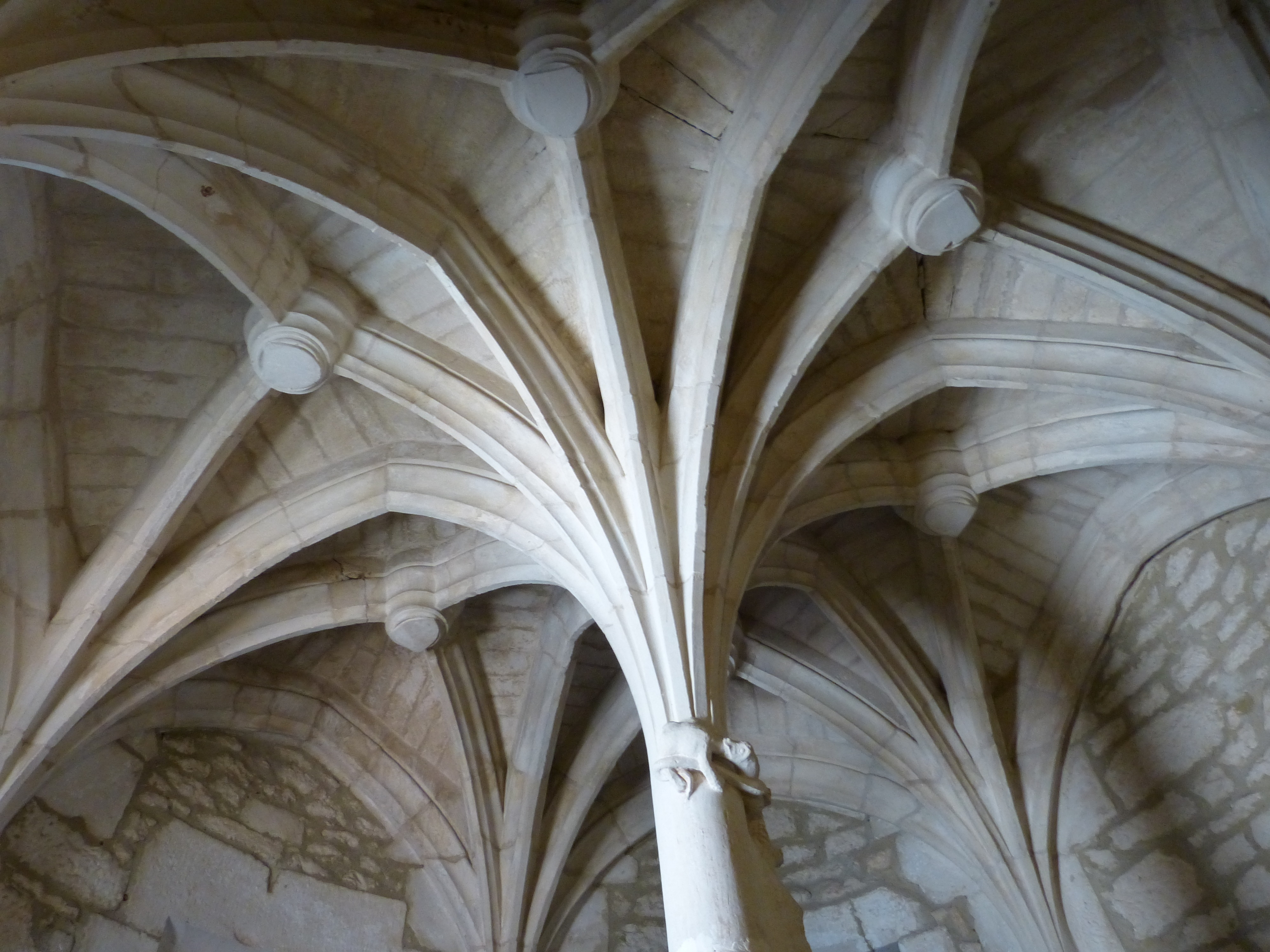 Château des Milandes ( Dordogne ). Gothic staircase ( 1489 ) - Gothic vaults.